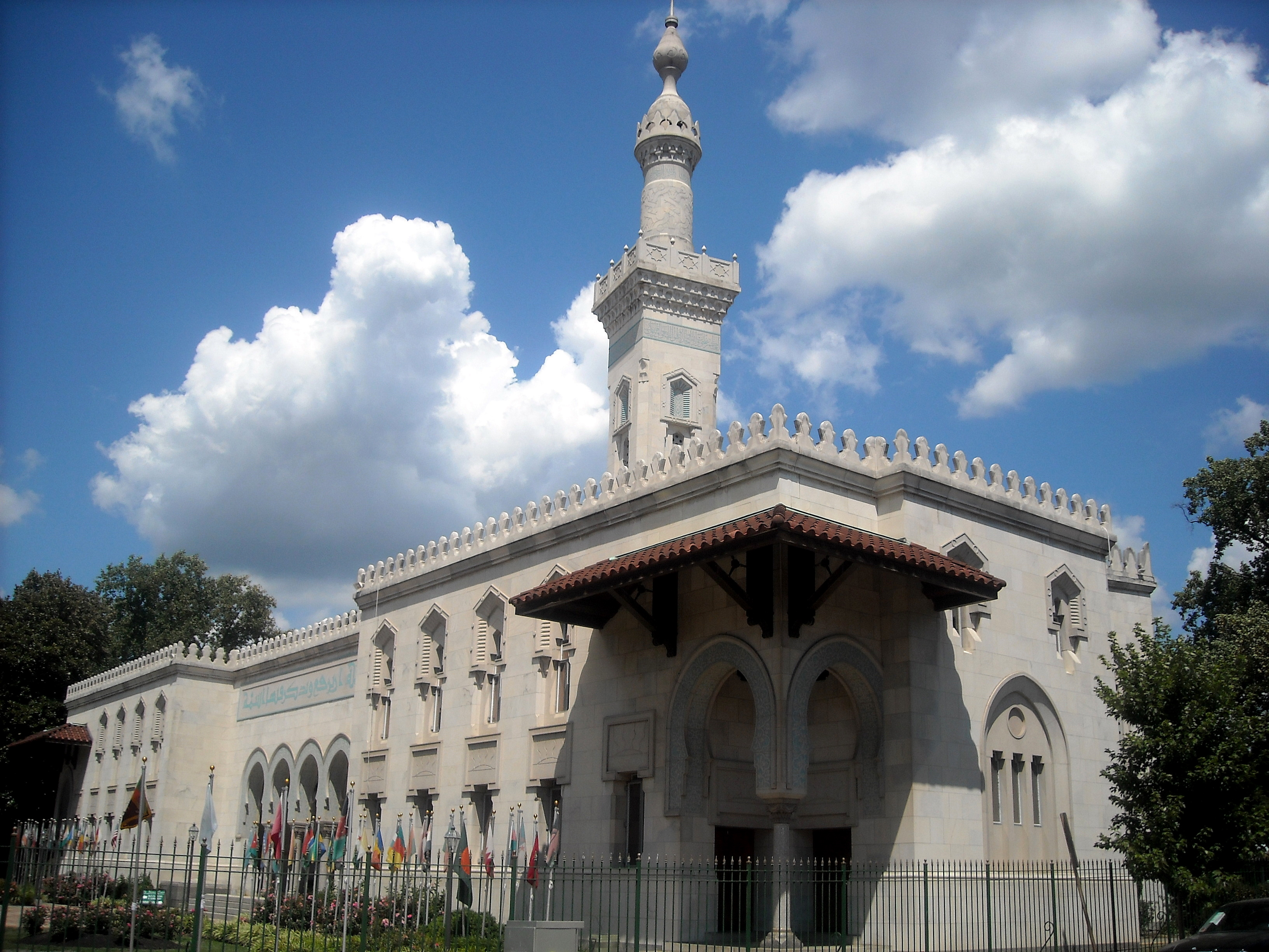 Islamic Center of Washington located at 2551 Massachusetts Avenue, NW in Washington, D.C.